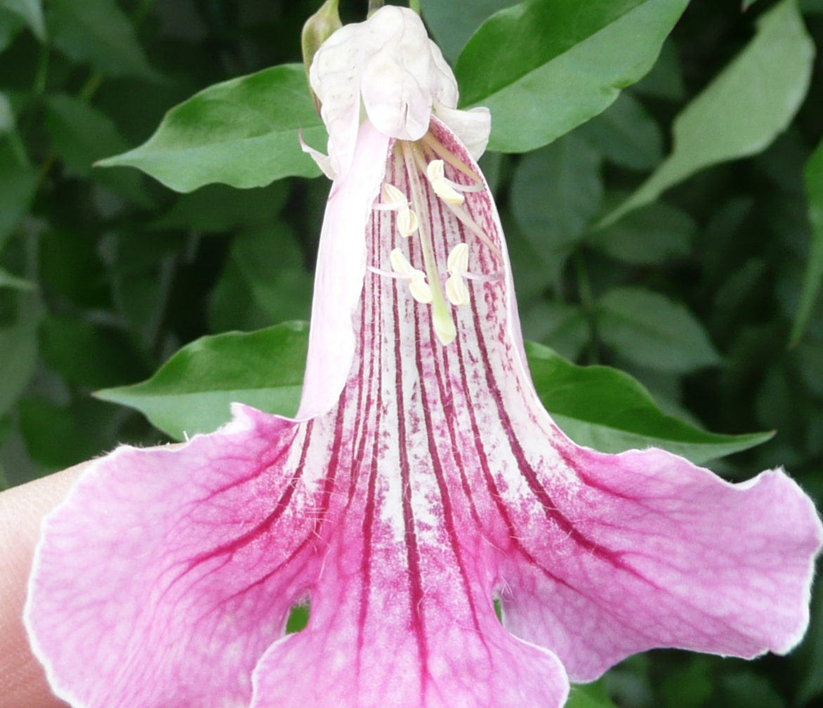 Trenque Lauquen, Buenos Aires province, Argentina.